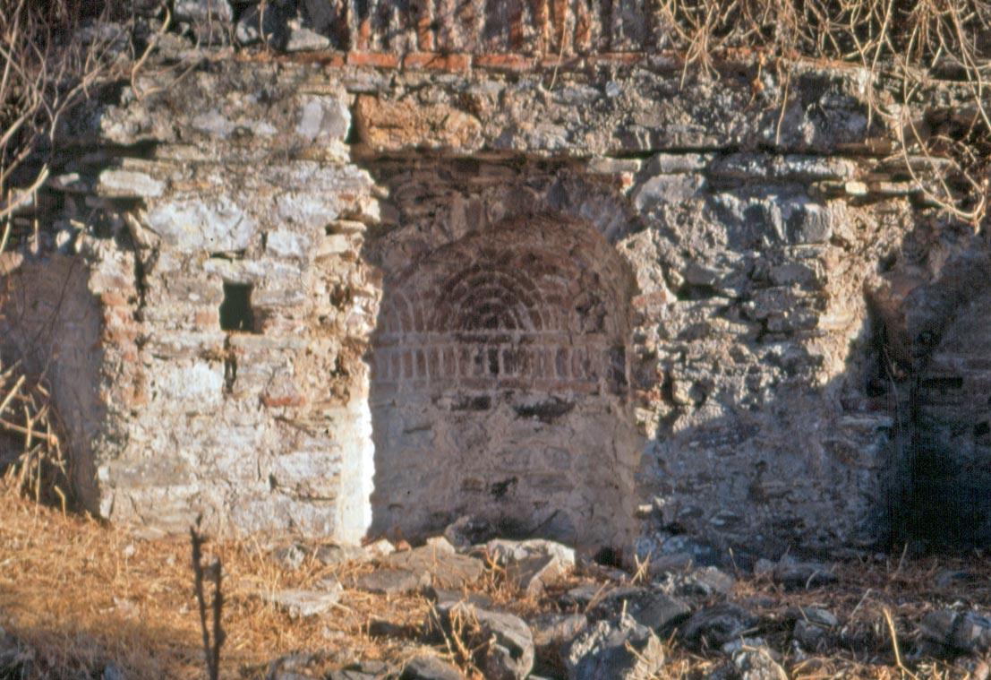 Iasos (Turkey), ruins of the byzantine fortress on the acropolis